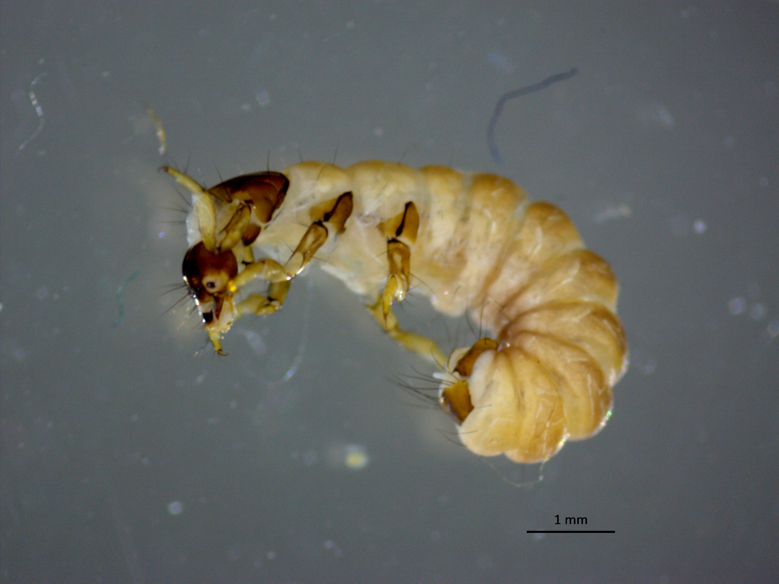 Glossosoma boltoni larva from Dragovištica river (SE Serbia). Српски (ћирилица): Ларва Glossosoma boltoni из Драговиштице (општина Босилеград, ЈИ Србија).